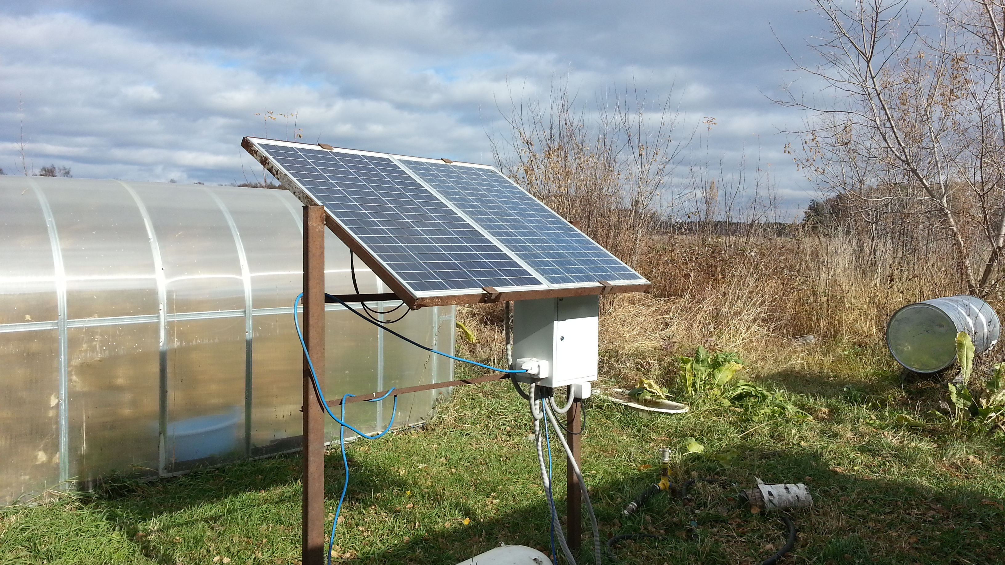 Polycrystallic solar panels (2x100W) in Talitsa